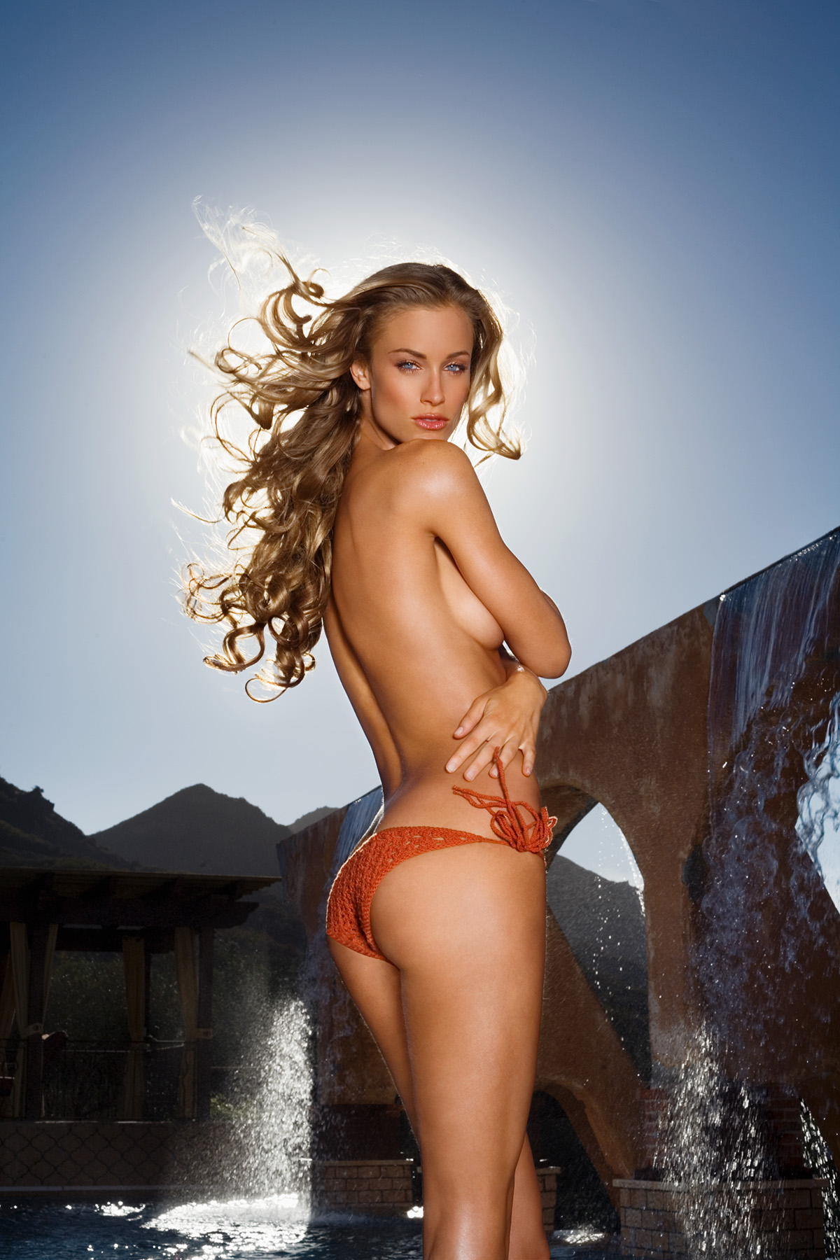 American model and television host Michele Merkin.